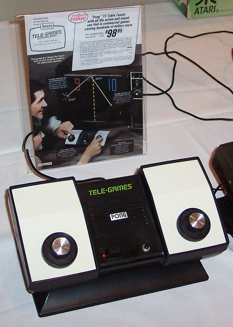 Atari's original Pong console, oem'd to Sears. Includes original 1975 Sears Catalog advertisement. I am the author and source of this photo. Taken from my personal collection of photos of my displays from the 2008 Midwest Gaming Classic. This photo is free to use as long as credits to Martin Goldberg and/or Electronic Entertainment Museum (E2M), are maintained.